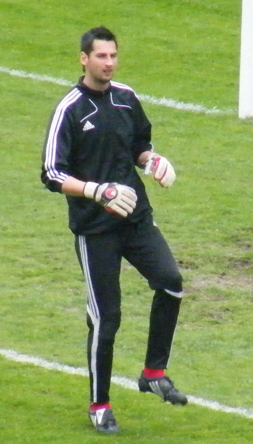 Péter Molnár Hungarian association football player.